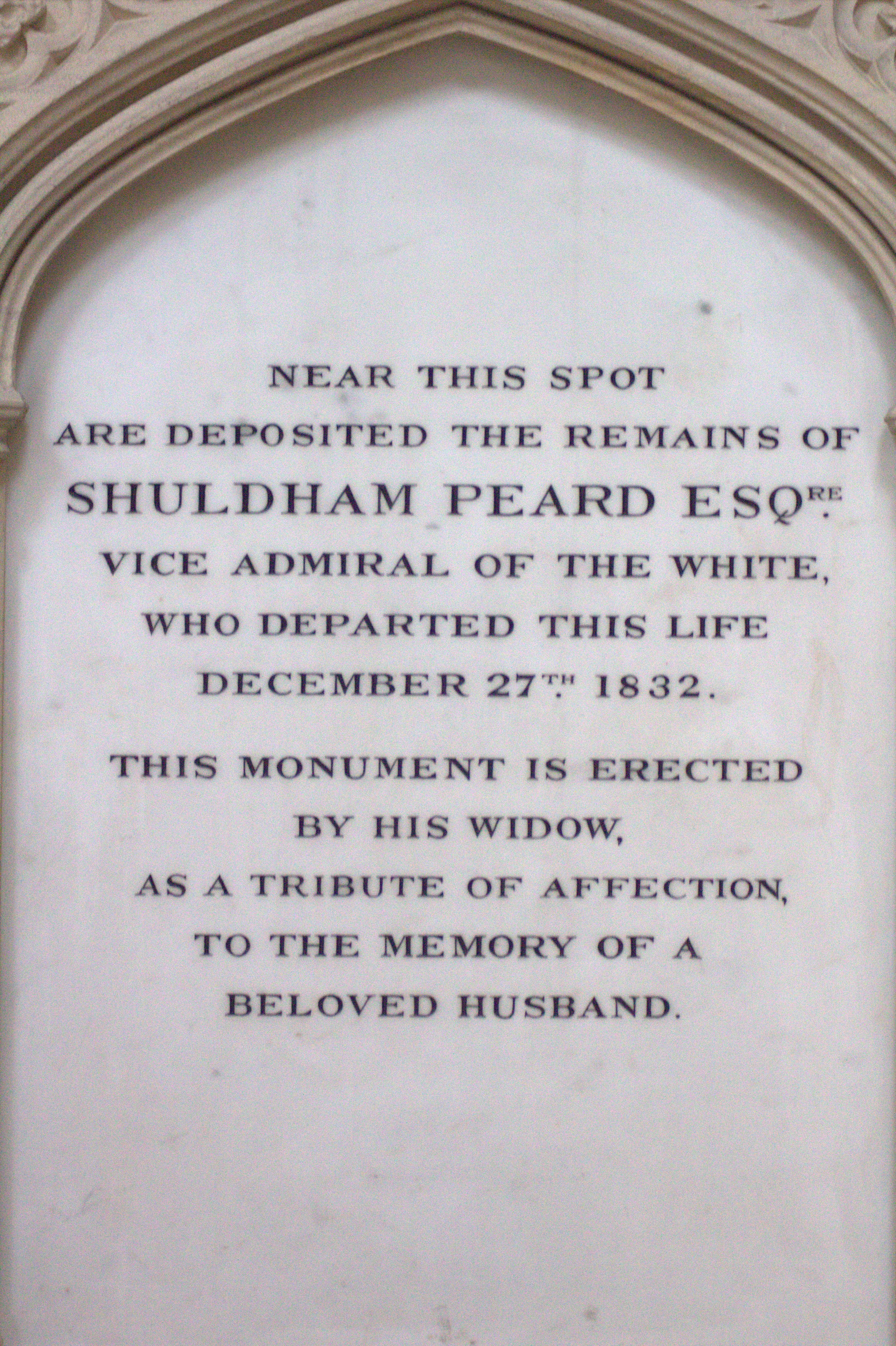 Memorial to Shuldham Peard, Vice Admiral of the White, departed this life December 27th 1832. In Exeter Cathedral.